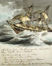 Sketchbook detail, painted aboard HMS Clio